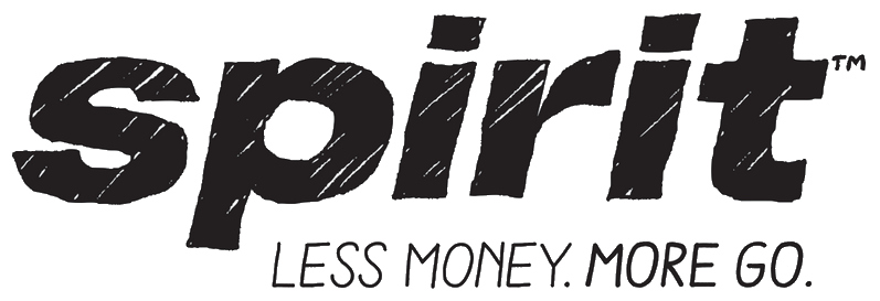 Logo for Spirit Airlines.